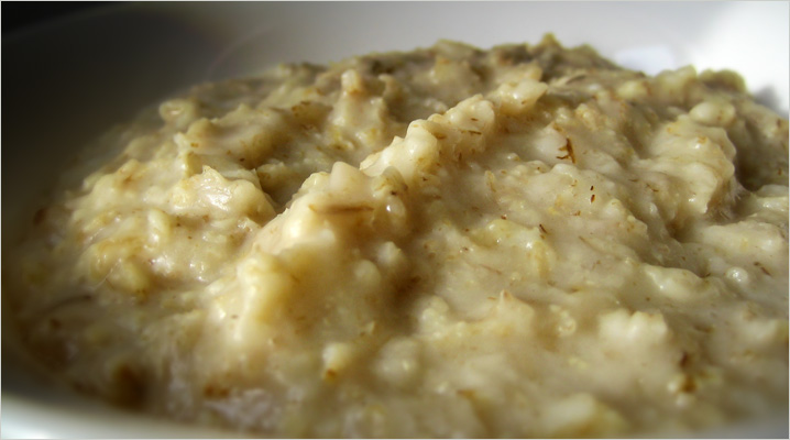 Porridge in a bowl